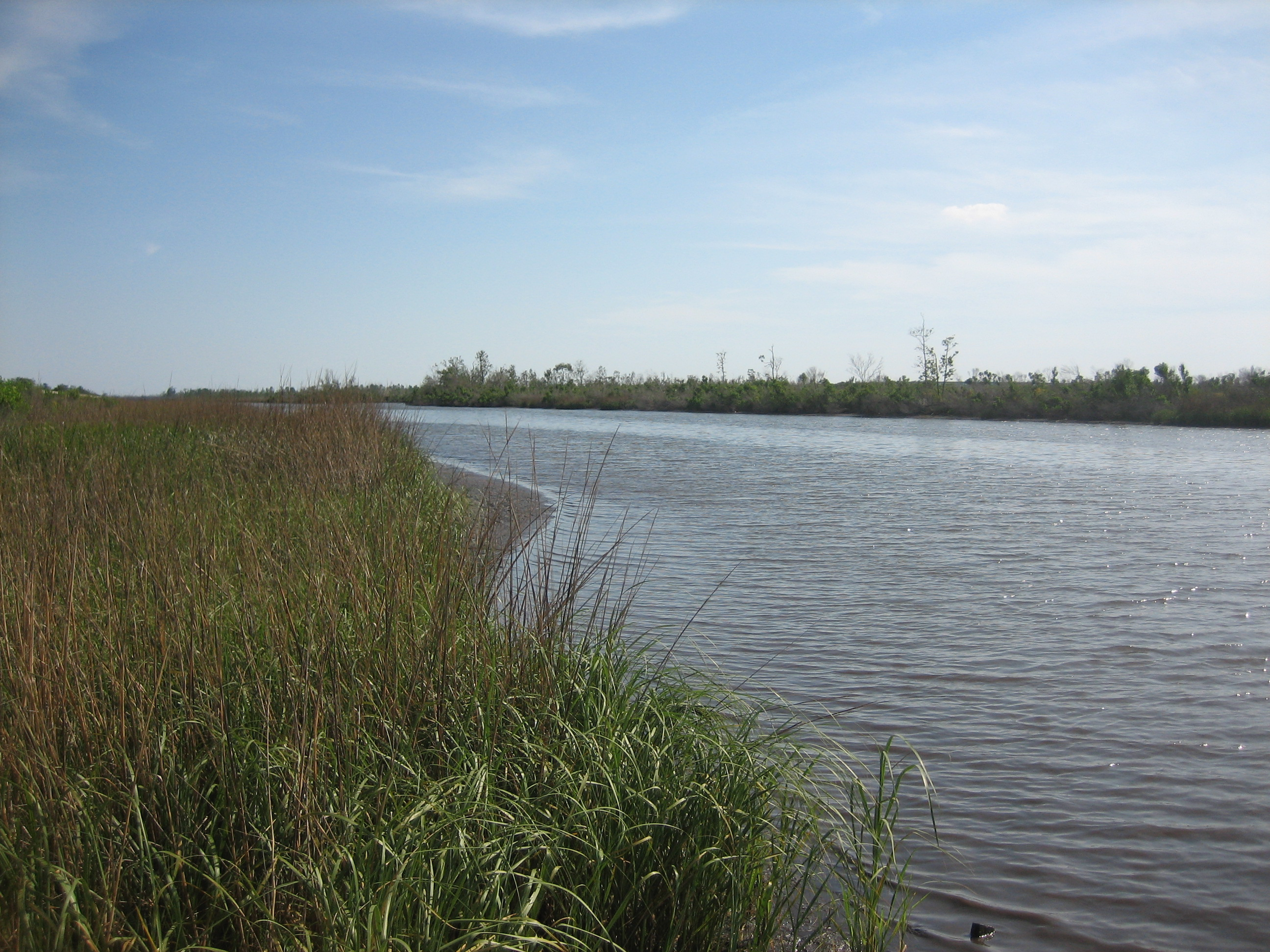 Louisiana: Duncan Canal from Kenner side. Photo by Infrogmation